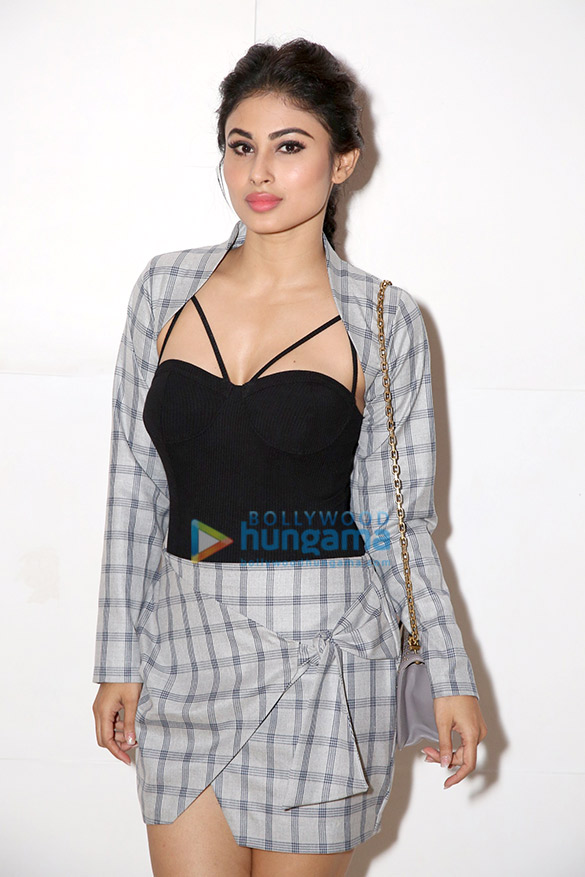 Mouni Roy graces the bash hosted by Farah Khan for Ed Sheeran, Nov 19, 2017